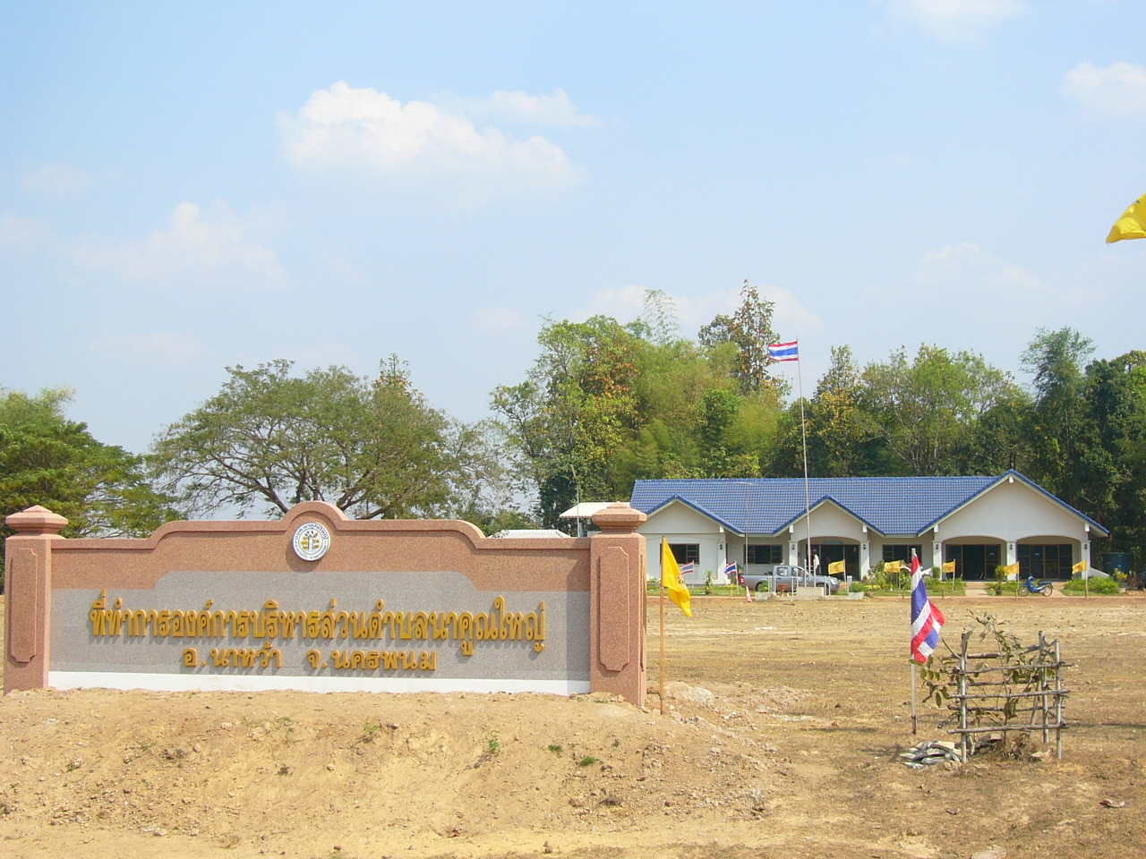 Administrative Building of Tambon Nakhun Yai, Nakhon Phanom Province, Thailand.